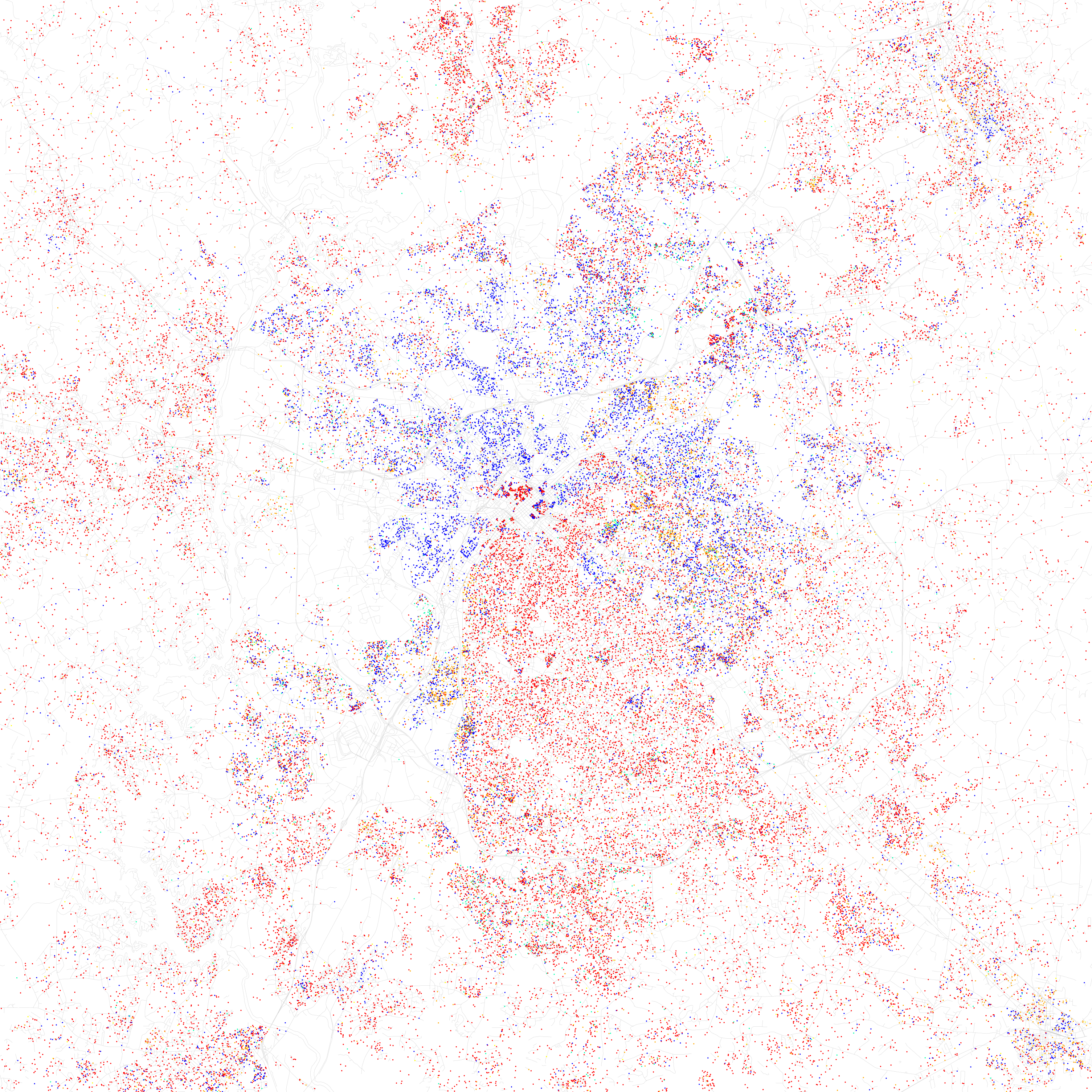 Maps of racial and ethnic divisions in US cities, inspired by Bill Rankin's map of Chicago, updated for Census 2010. Red is White, Blue is Black, Green is Asian, Orange is Hispanic, Yellow is Other, and each dot is 25 residents. Data from Census 2010. Base map © OpenStreetMap, CC-BY-SA